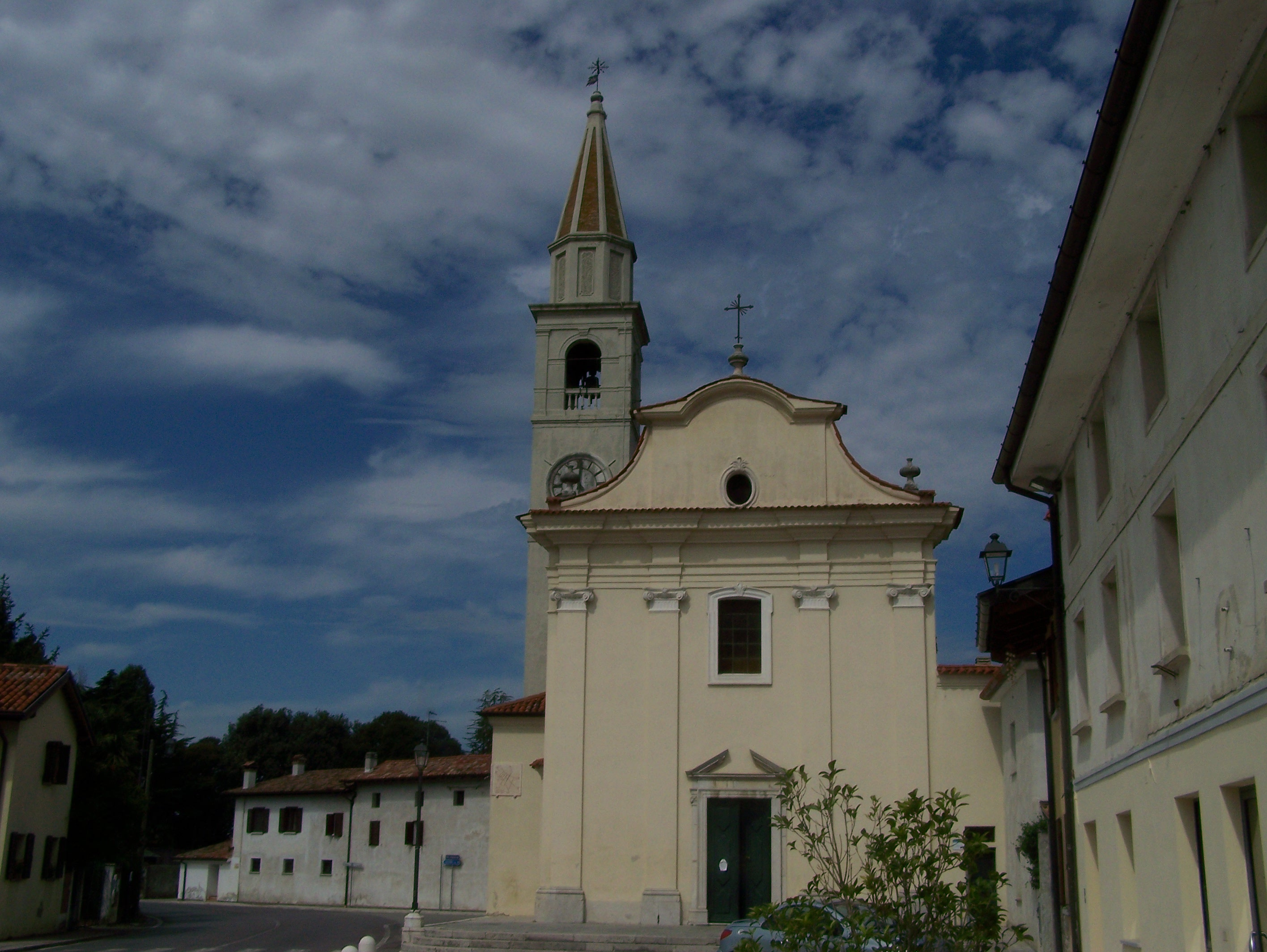 The church of Saint Agnes in Joannis, Udine, ItalyFurlan: La glesie di Santa Gnesa in Uanis, inte Basse